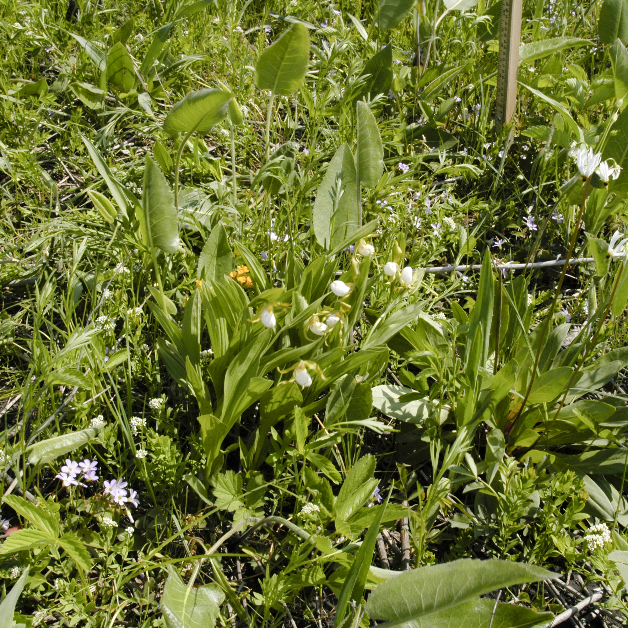 field image of Cypripedium candidum, WHITE LADY'S SLIPPER at the James Woodworth Prairie Preserve - a stand at full bloom